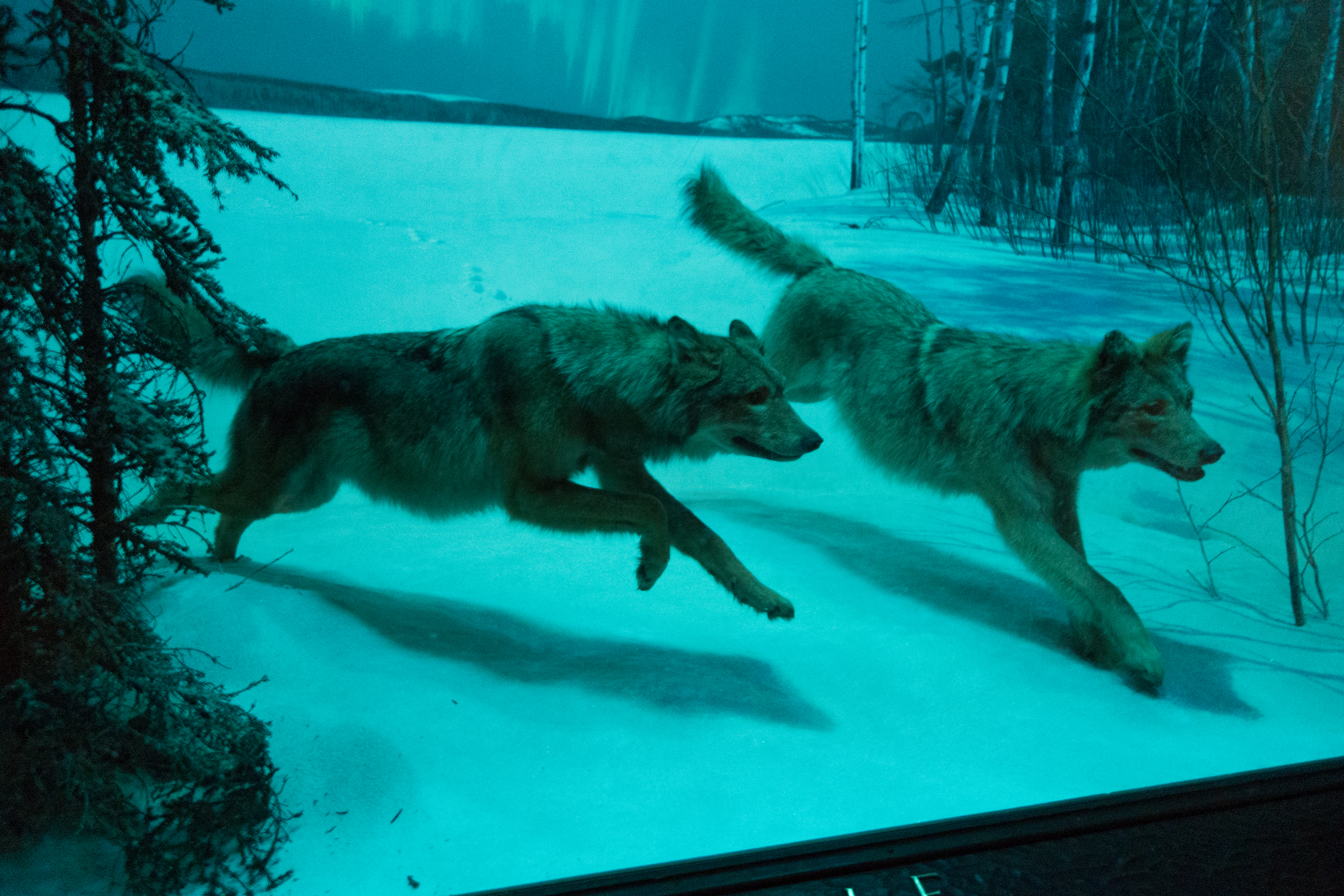 American Museum of Natural History, New York City, 2015